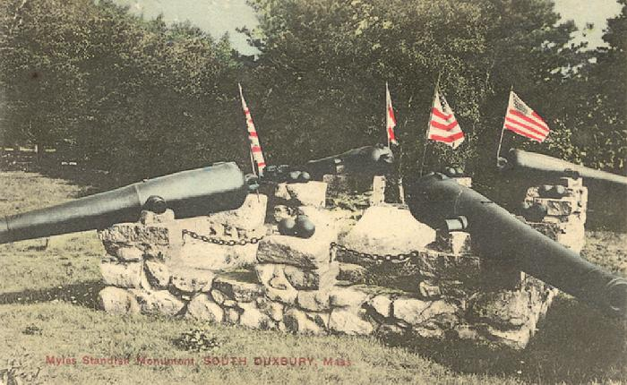 A postcard from 1916 of the Miles Standish Monument in South Duxbury, Massachusetts, USA